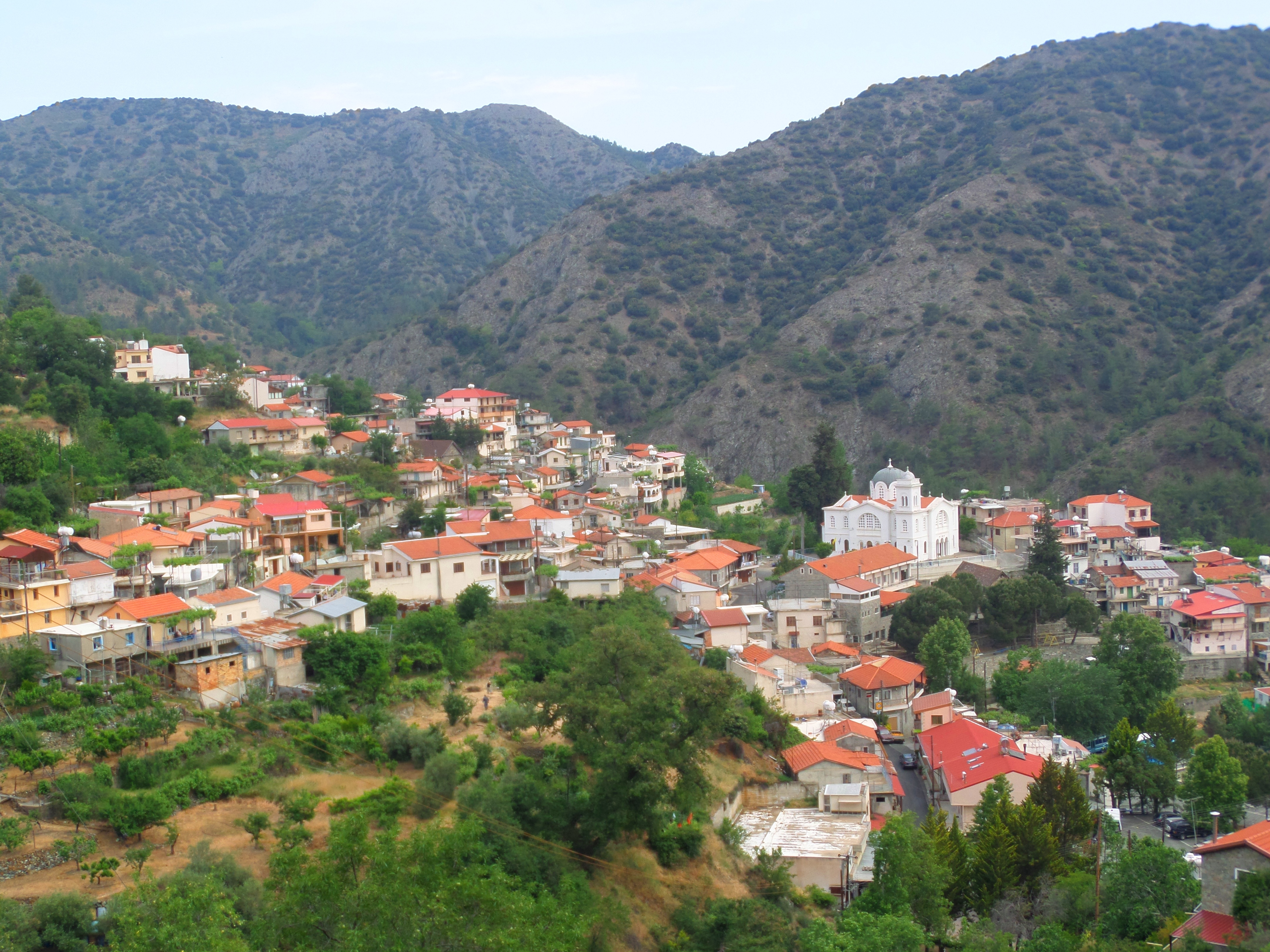 View of Agios Ioannis, Limassol.